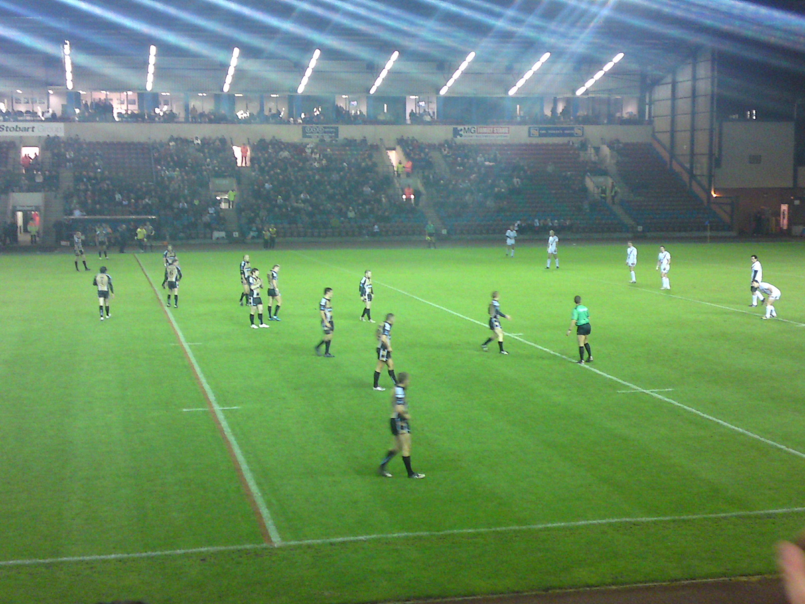 Widnes Vikings vs St Helens Karalius Cup 2010. Taken from the North Stand at the Stobart Stadium (Halton Stadium)